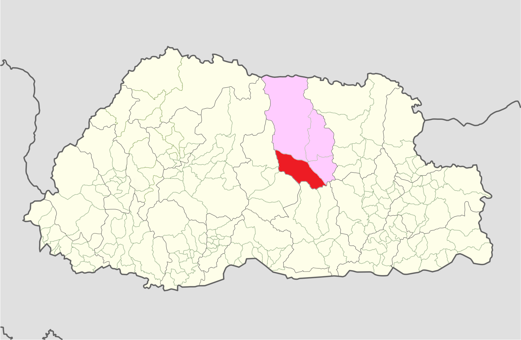 Chhuming Gewog within Bumthang District, Bhutan